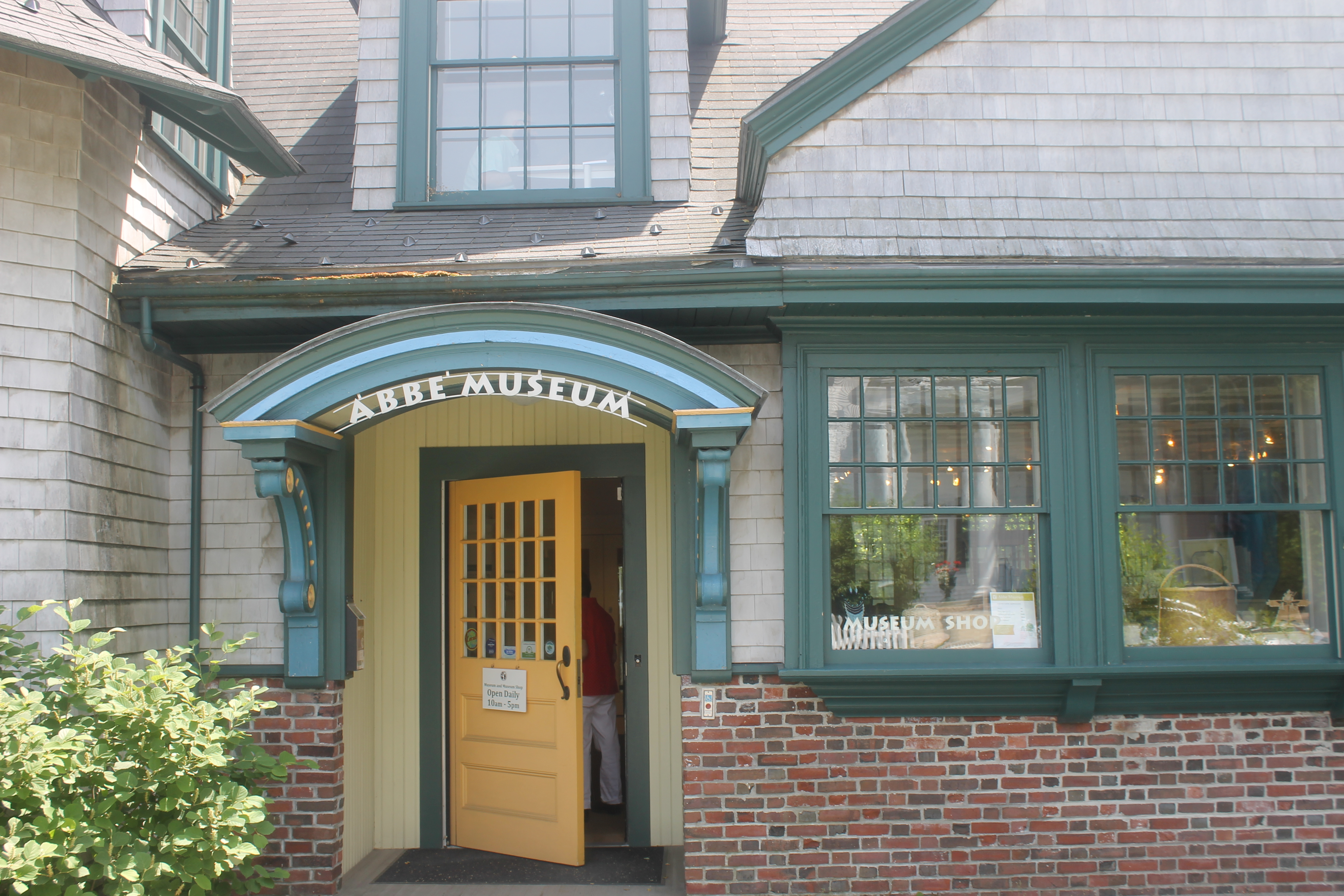 I took photo with Canon camera of Abbe Museum, a division of the Smithsonian, in Bar Harbor, ME.